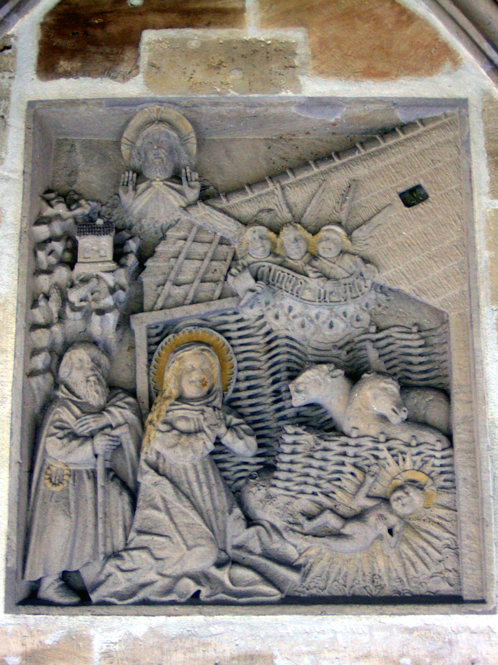 Monastery Himmelkron, Birth of Jesus